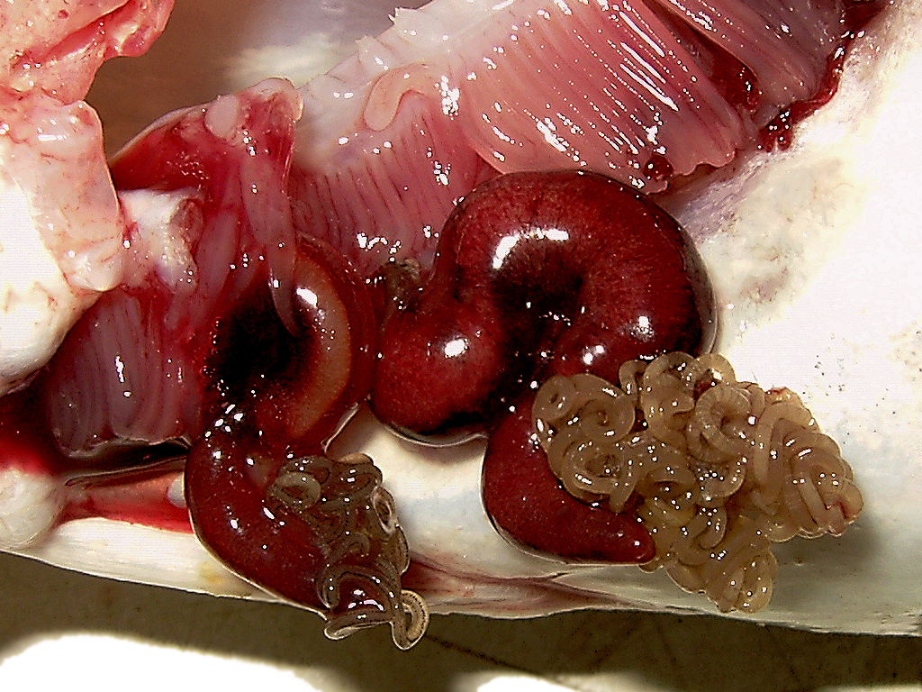 A parasitical copepod on a Whiting, from the Belgian coastal waters (Kwintebank). Length (including egg sacks): ~14 mm. Lab image.